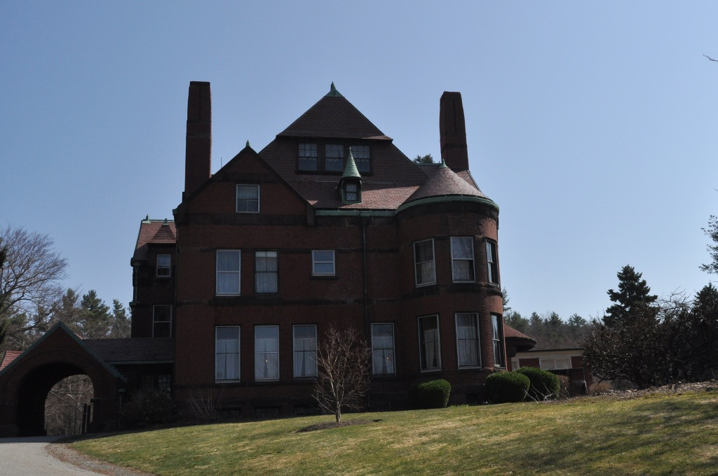 The main house at Osgood Hill, also known as the Stevens Estate, in North Andover, Massachusetts.